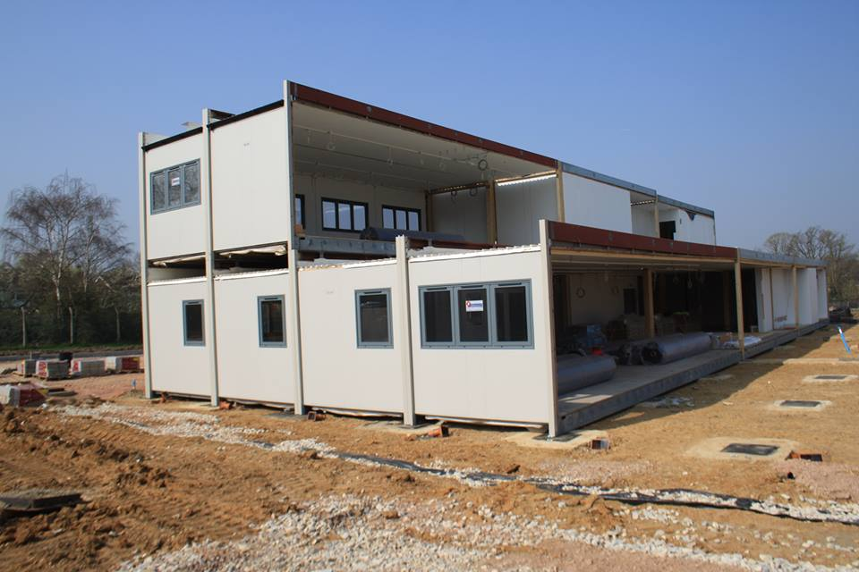 Forest Sixth Building in construction during Easter 2015.